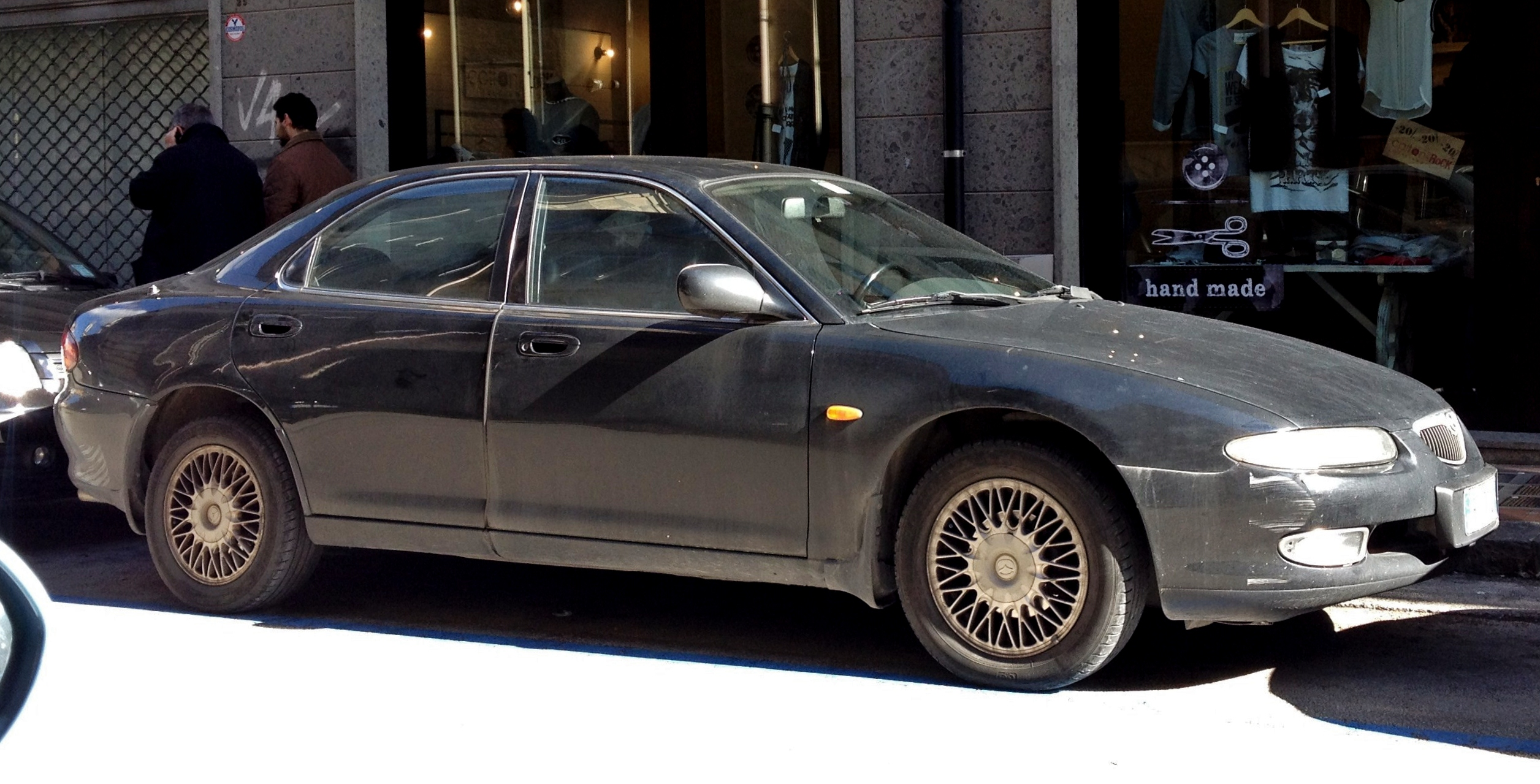 Mazda Xedos 6